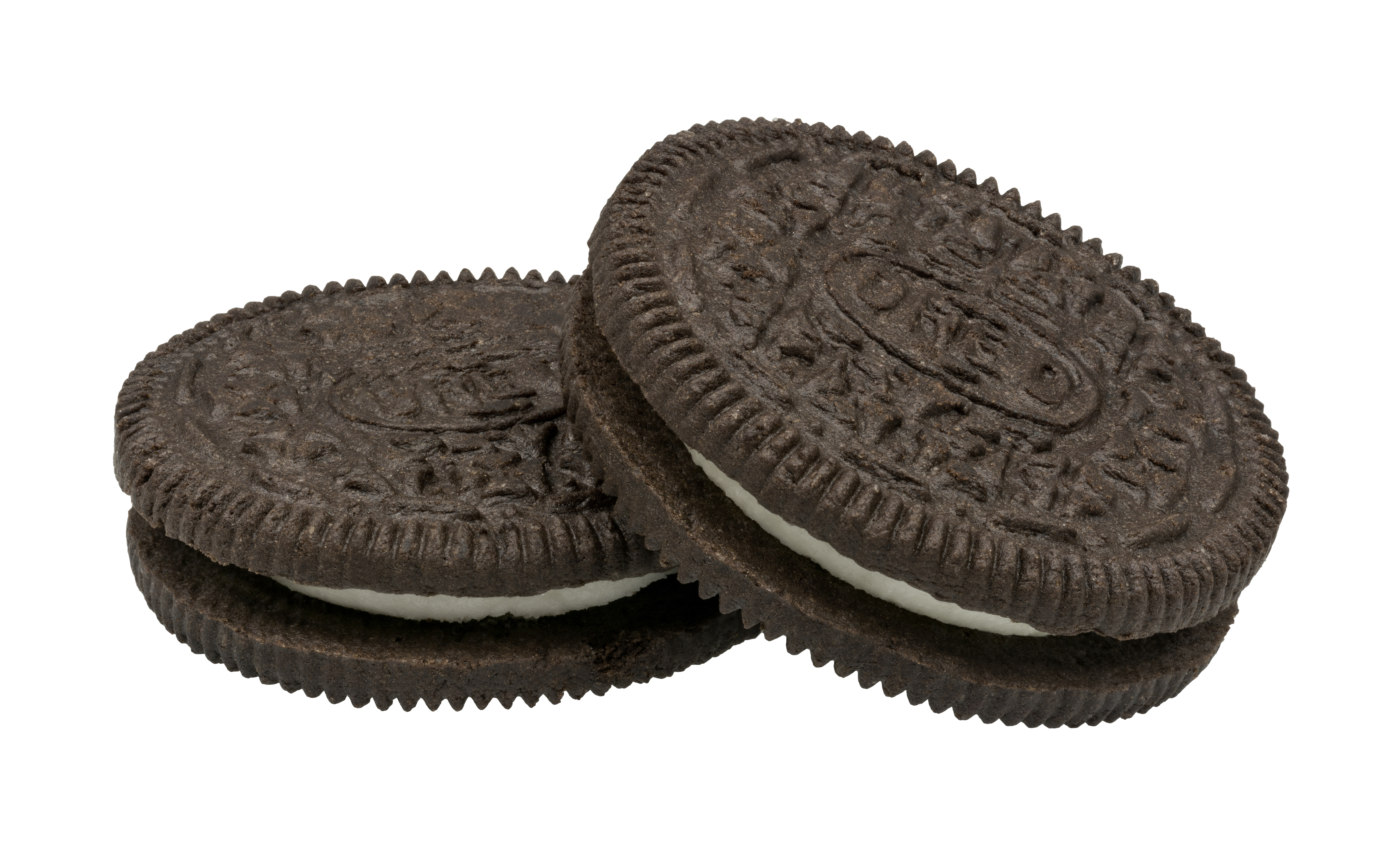 Two regular Oreo cookies, bought from a supermarket in Brooklyn, NY. Please check my Wikimedia User Gallery for all of my public domain works.